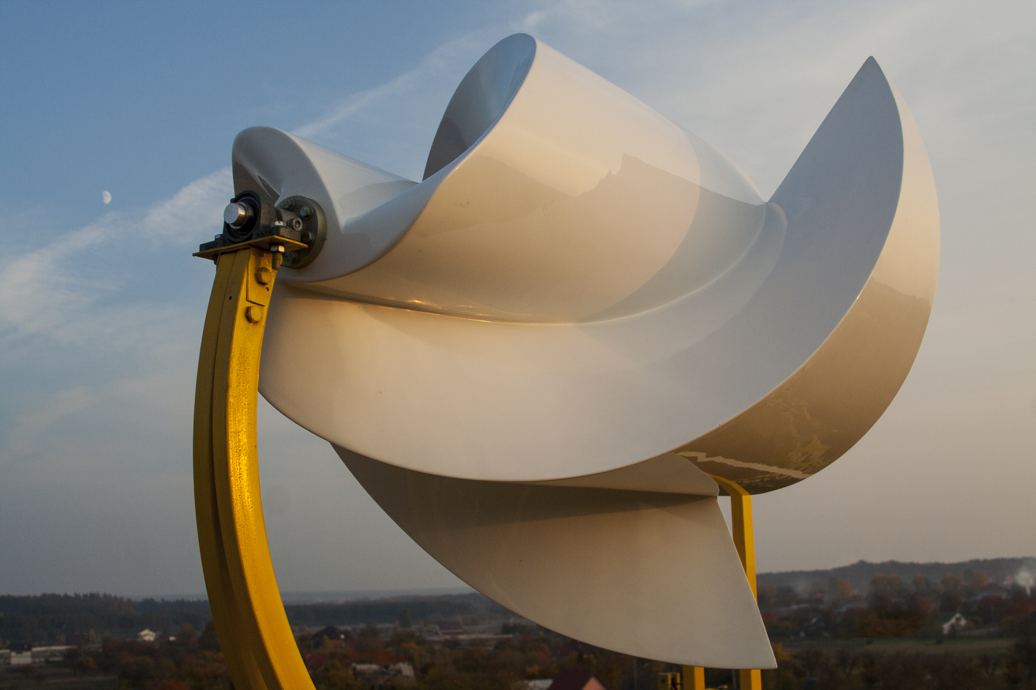 Onipko Rotor Wind Electric Turbine (ORWET), 1.28 meters in diameter at the testing facility.